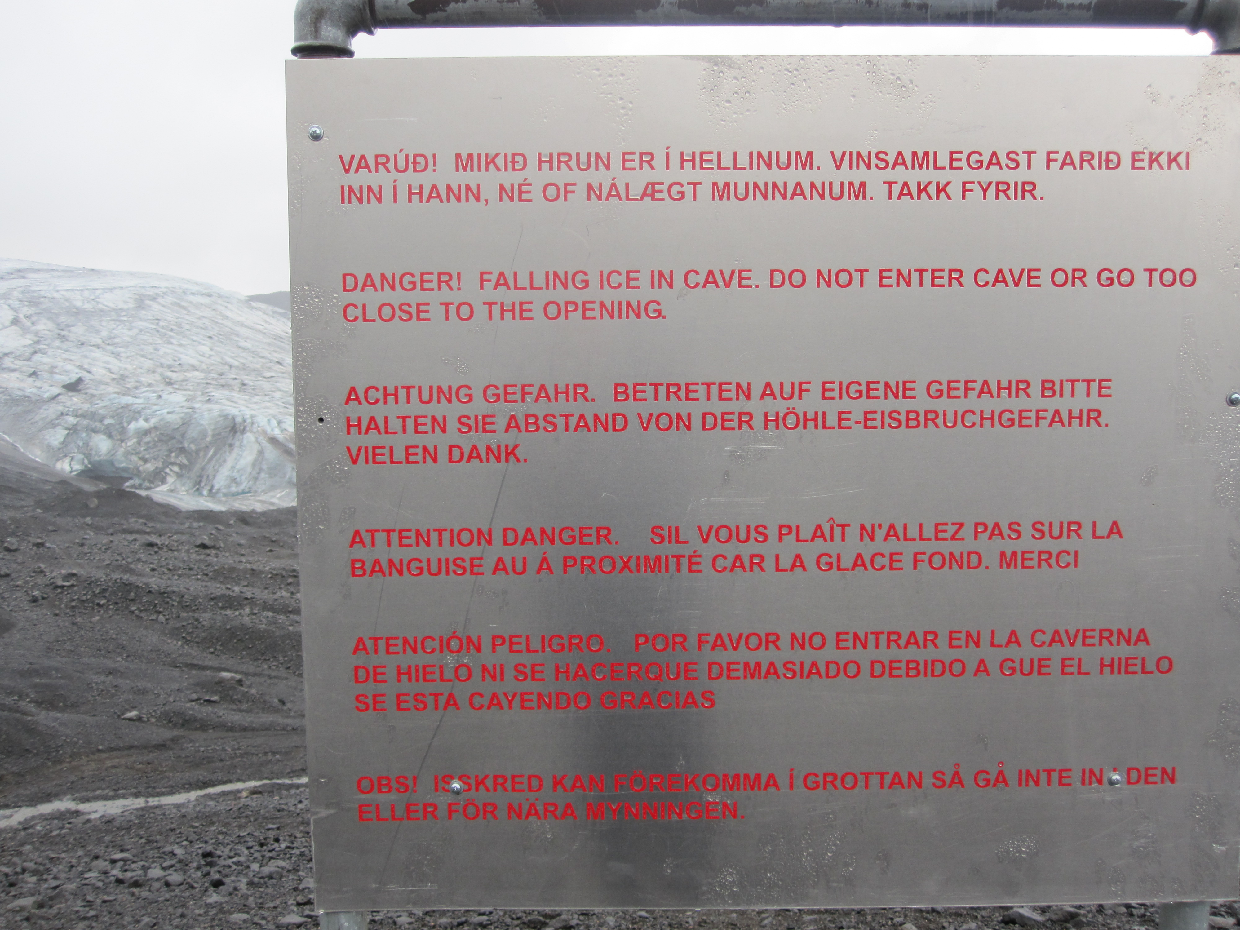 Kverkjöll warning text for entering the caves.